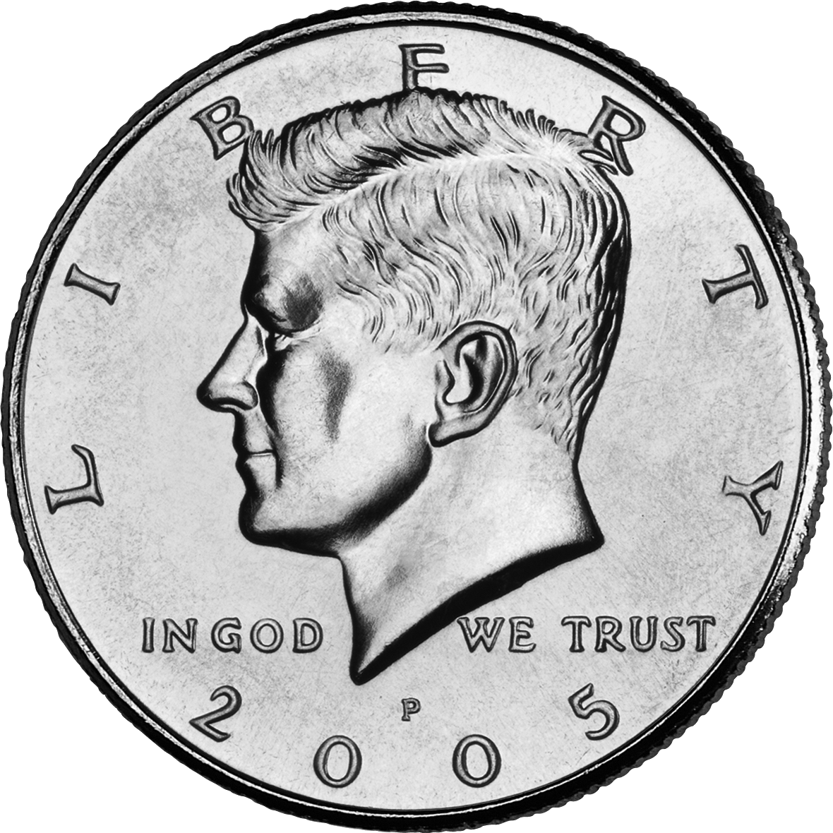 Removed background, cropped, and converted to PNG with Macromedia Fireworks. This image depicts a unit of currency issued by the United States of America. If Fraudulent use of this image is punishable under applicable counterfeiting laws. As listed by the United States Secret Service at money illustrations, the Counterfeit Detection Act of 1992, Public Law 102-550, in Section 411 of Title 31 of the Code of Federal Regulations (31 CFR 411), permits color illustrations of U.S. currency provided: 1. The illustration is of a size less than three-fourths or more than one and one-half, in linear dimension, of each part of the item illustrated; 2. The illustration is one-sided; and 3. All negatives, plates, positives, digitized storage medium, graphic files, magnetic medium, optical storage devices, and any other thing used in the making of the illustration that contain an image of the illustration or any part thereof are destroyed and/or deleted or erased after their final use. Certain coins contain copyrights licensed to the U.S. Mint and owned by third parties or assigned to and owned by the U.S. Mint [1]. For the United States Mint circulating coin design use policy, see [2]; for the policy on the 50 State Quarters, see [3]. Also: COM:ART#Photograph of an old coin found on the Internet